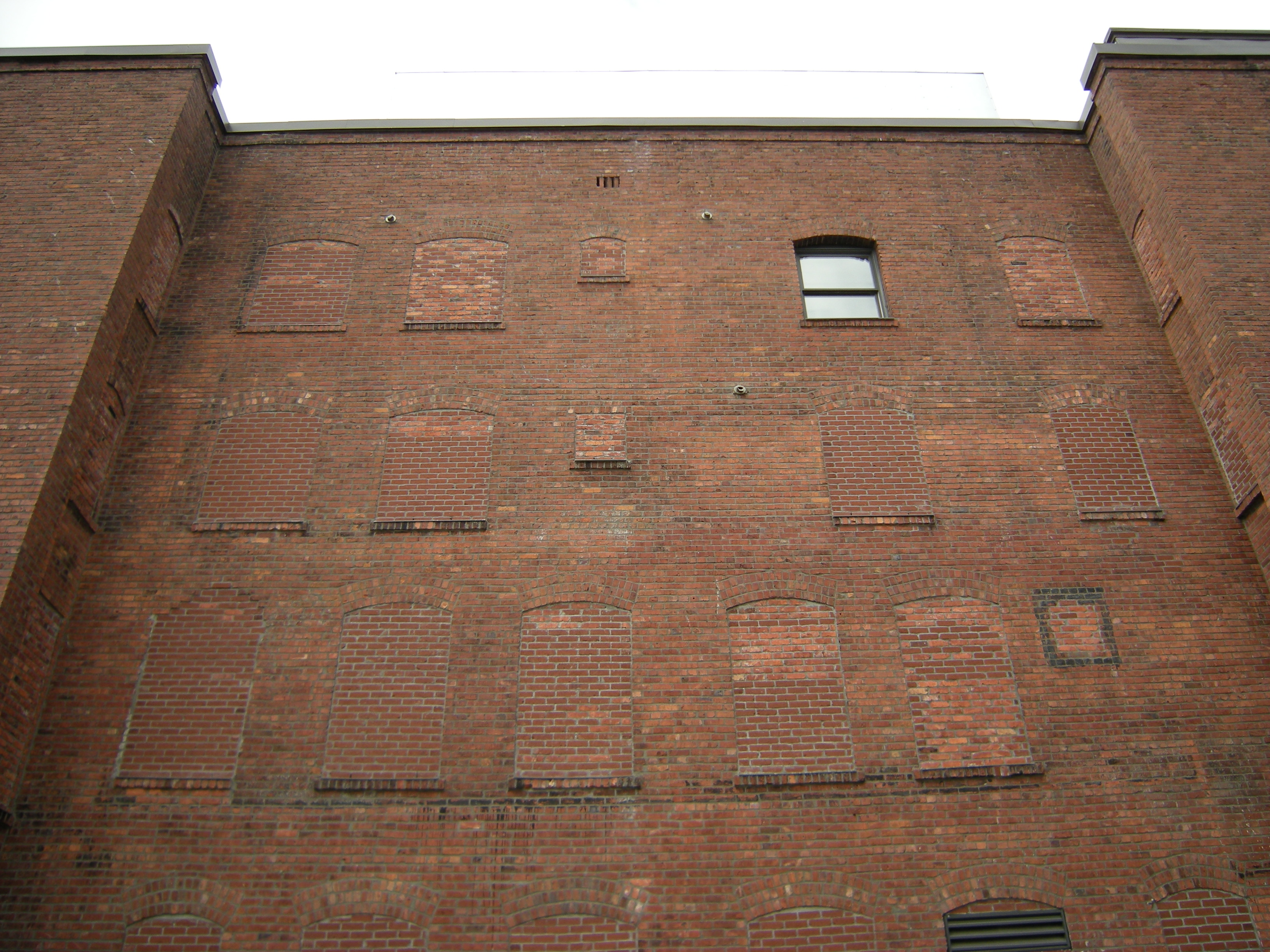 Bricked-over windows on the south façade of the East Kong Yick Building, 715-725 S King Street, International District, Seattle, Washington. This 1910 building is the new home to the Wing Luke Museum.